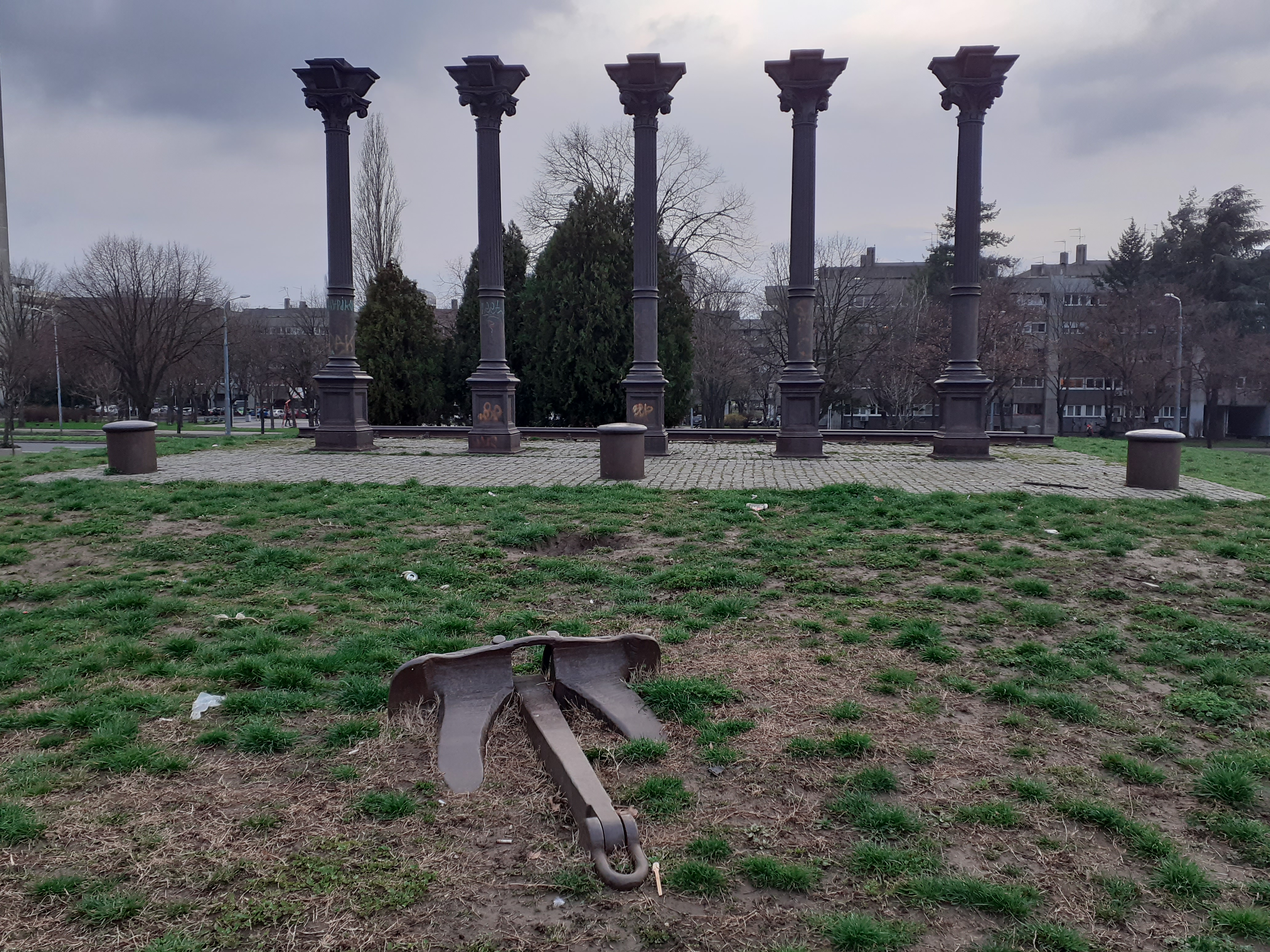 Monument: Zemun railway station, Zemun 2